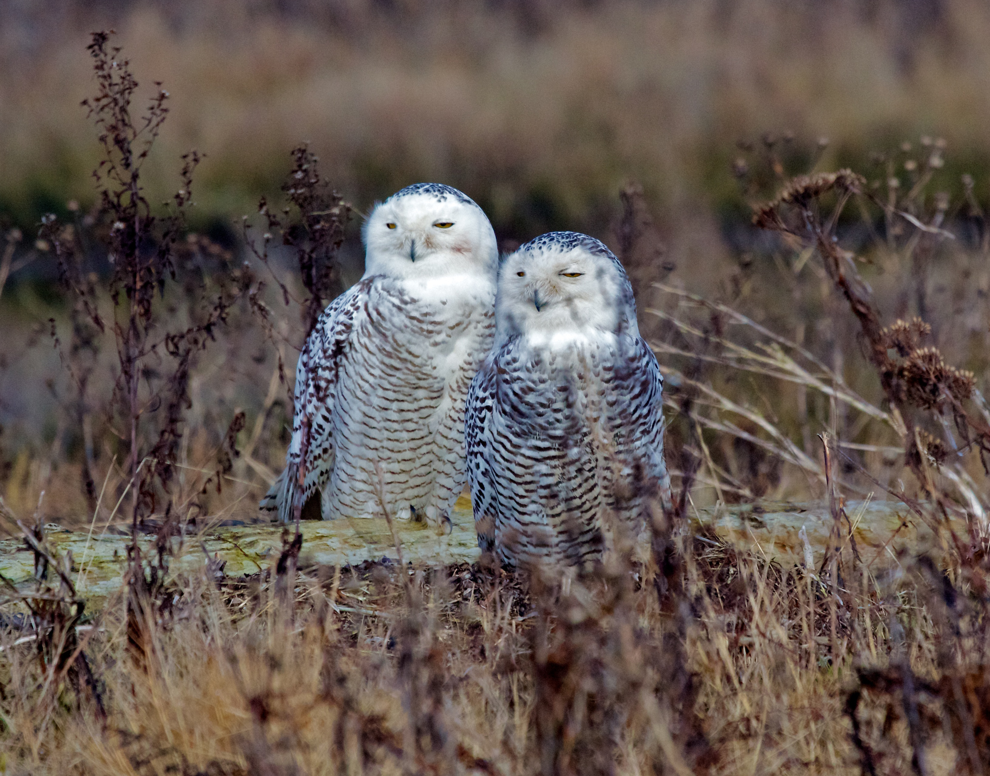 Snowy Owls Bubo scandiacus, Delta, British Columbia, Canada.